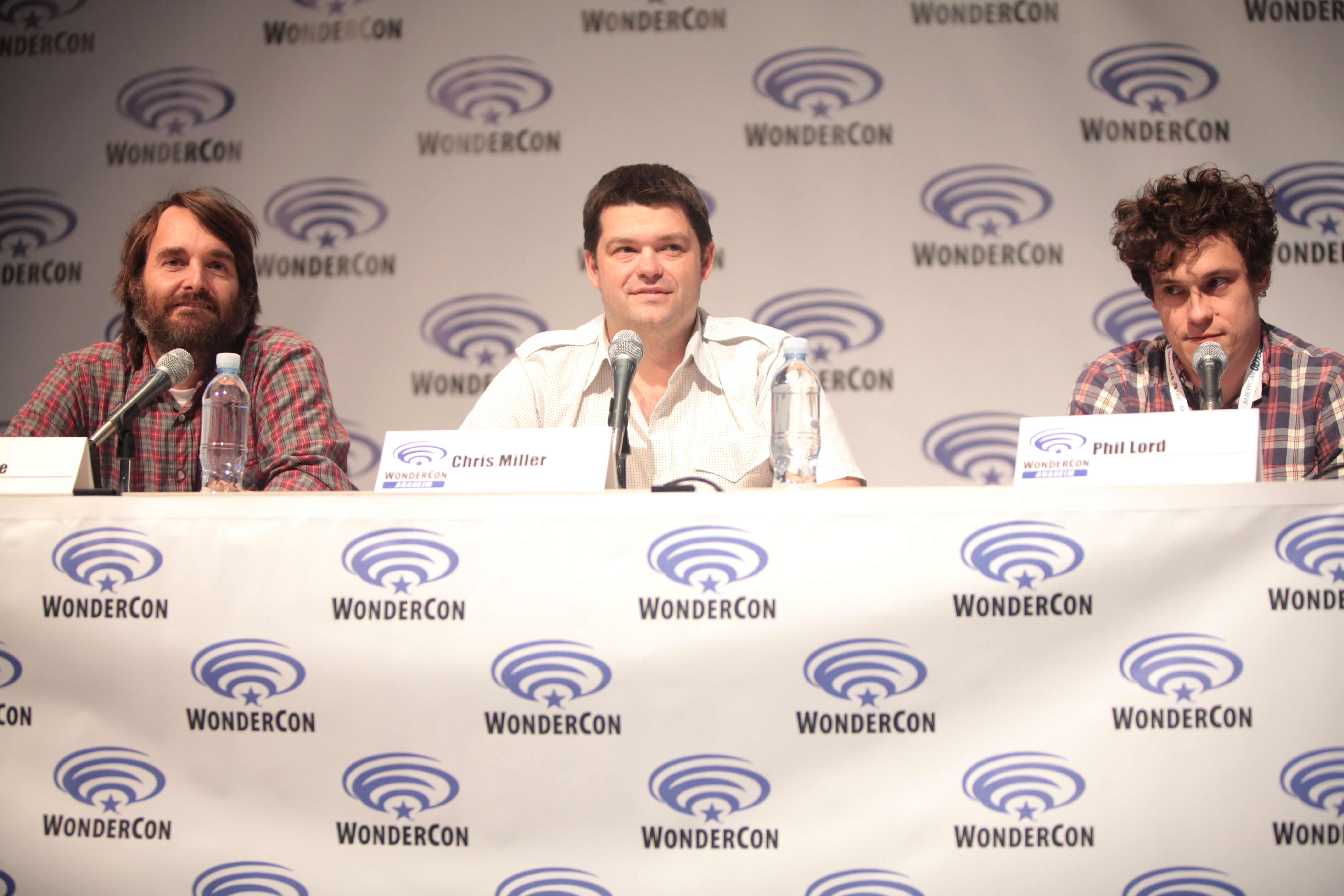 Chris Miller and Phil Lord speaking at the 2015 Wondercon, for "The Last Man on Earth", at the Anaheim Convention Center in Anaheim, California.